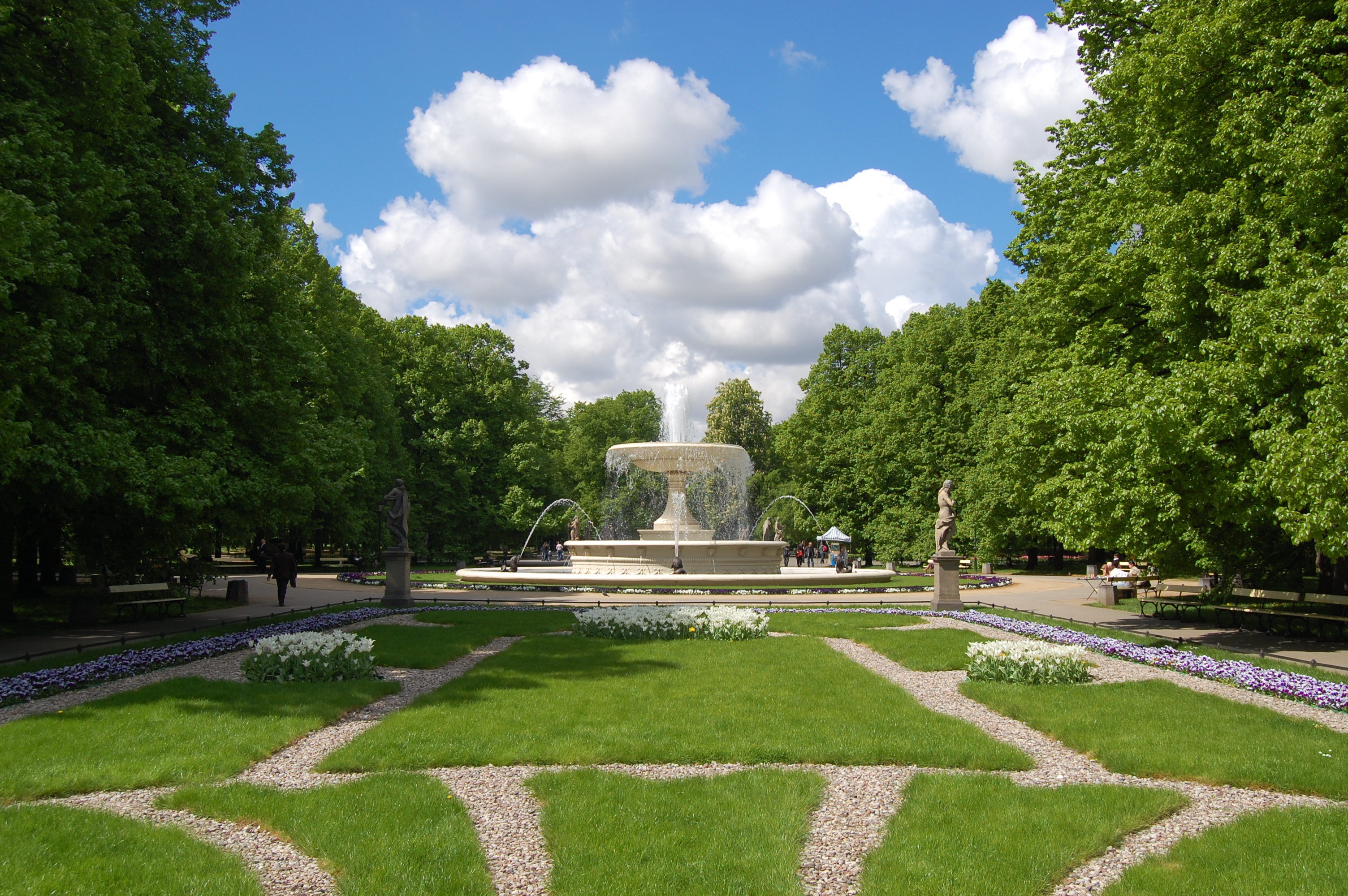 Fountain in Saxon Garden, Warsaw, Poland. Fountain is placed on the Saxon Axis.